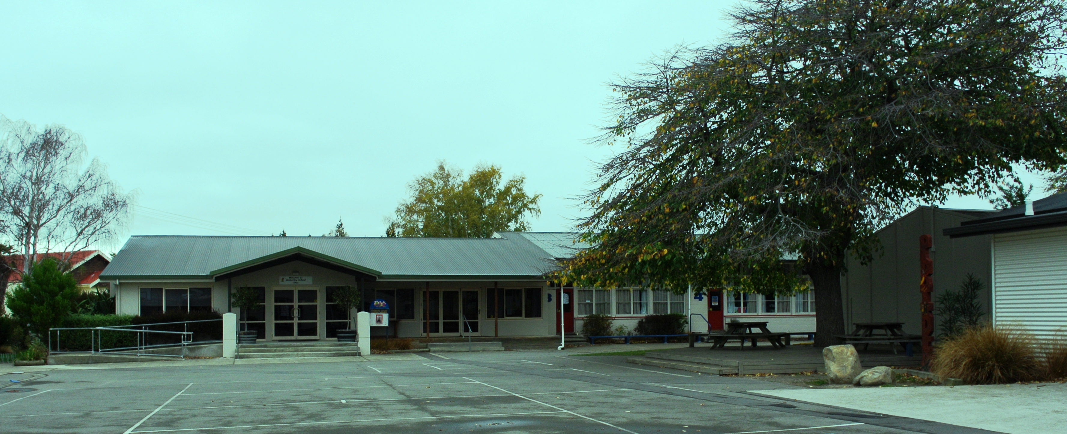 Amberley Primary School, New Zealand